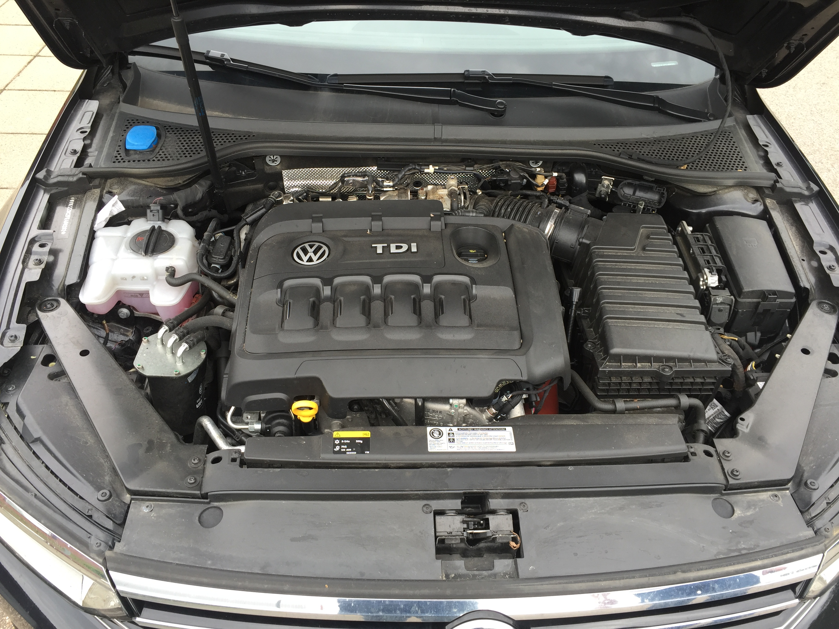 Engine compartment of Volkswagen Passat Variant B8 2.0 BiTDI MY 2015